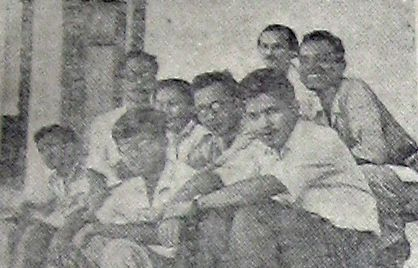 Indonesian writers. Far right is Nasjah Djamin. Ajip Rosidi is sitting front-center. Nugroho Notosusanto is in the centre.